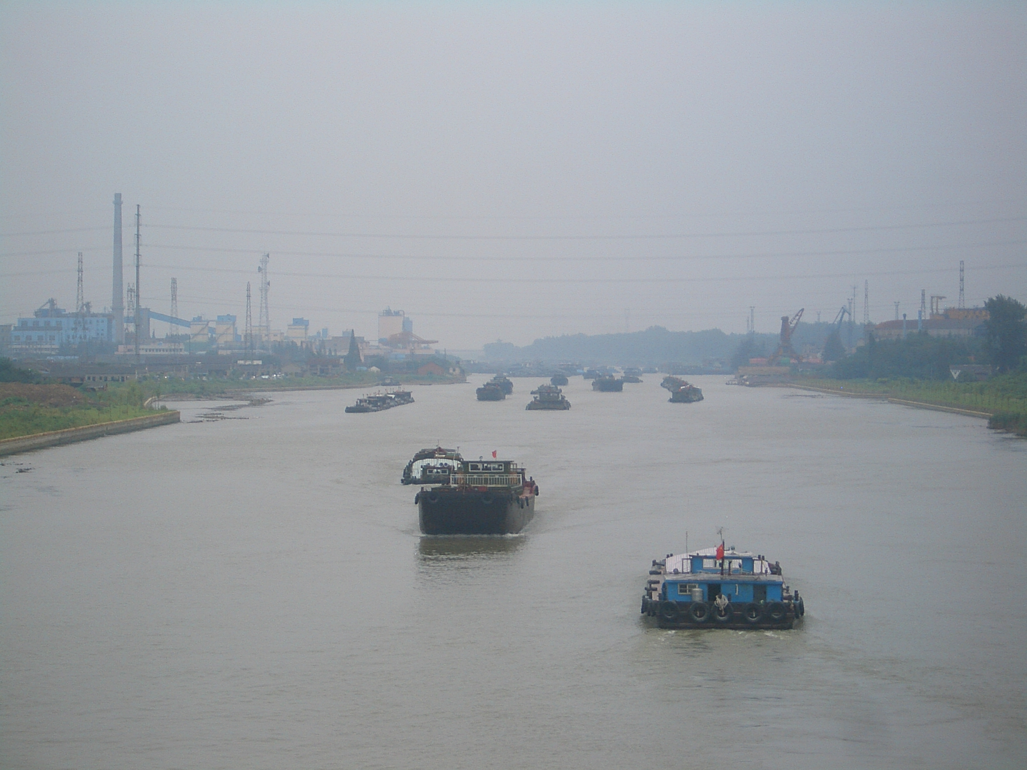 Self-propelled barges on the modern route of the Grand Canal of China on the eastern outskirts of Yangzhou. (Looking north from a bridge).